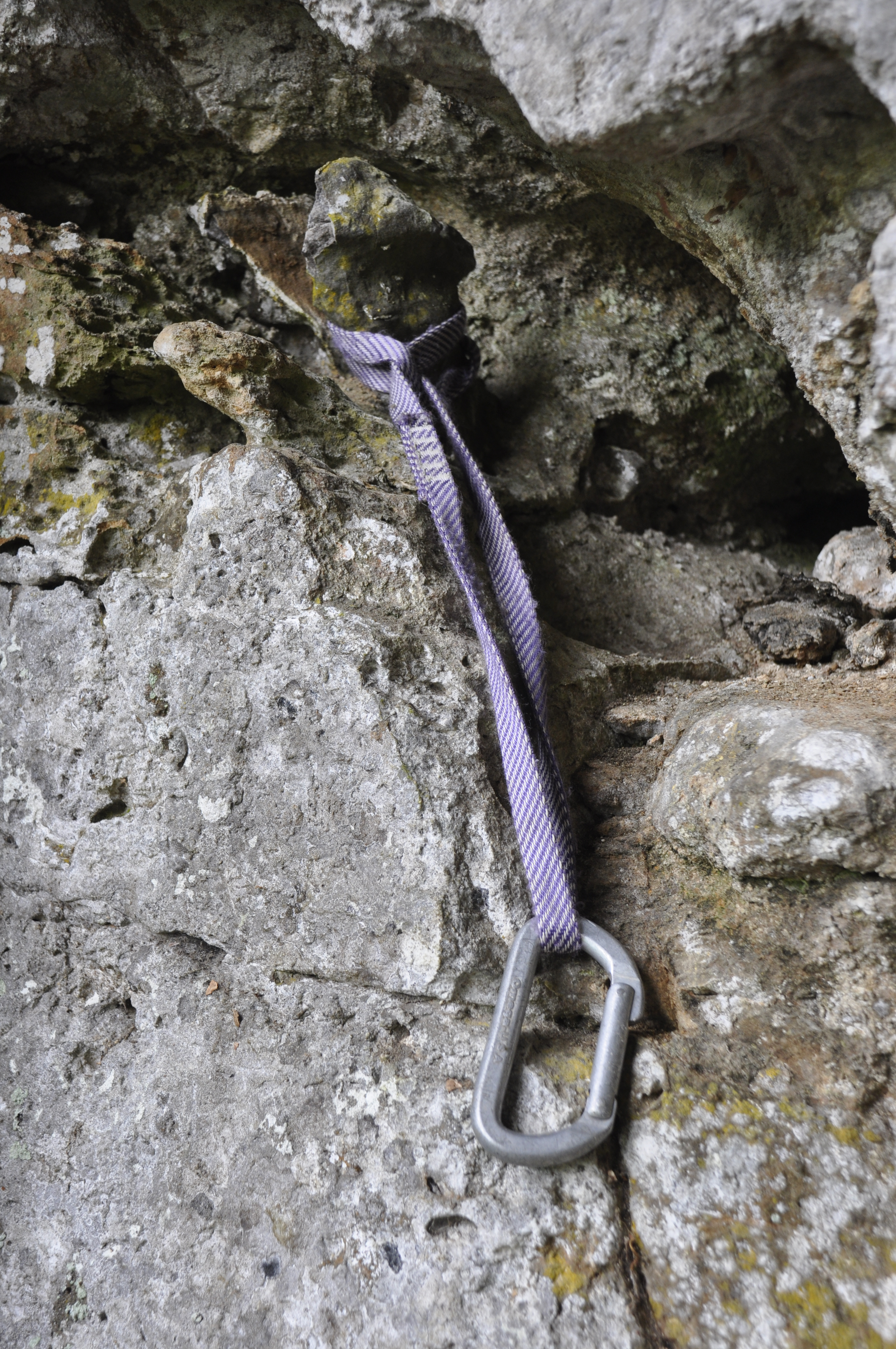 Reed's Creek - Tied off Chicken Head